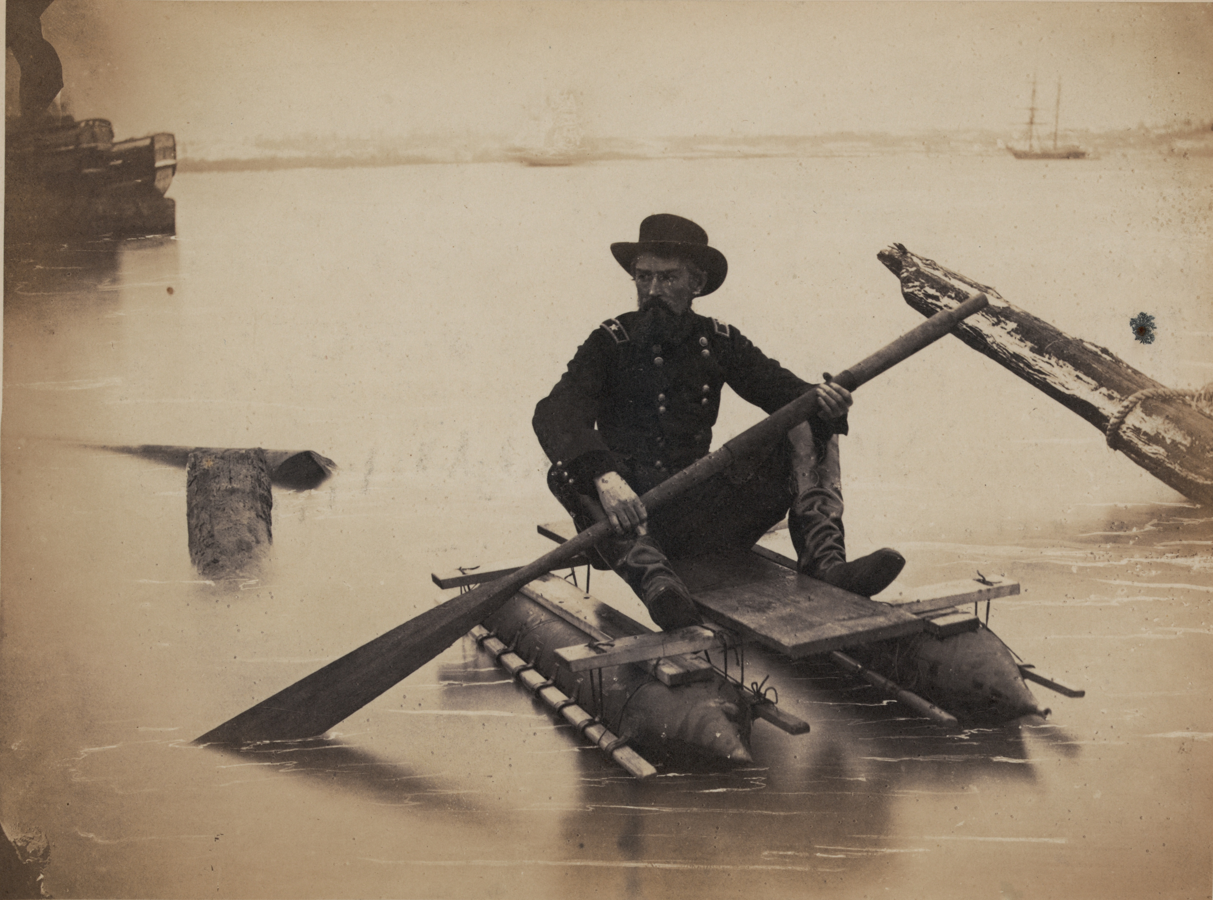 General Herman Haupt, of the Union Army holding oar and sitting on raft constructed of a pair of small pontoons and several wooden planks, during Civil War.